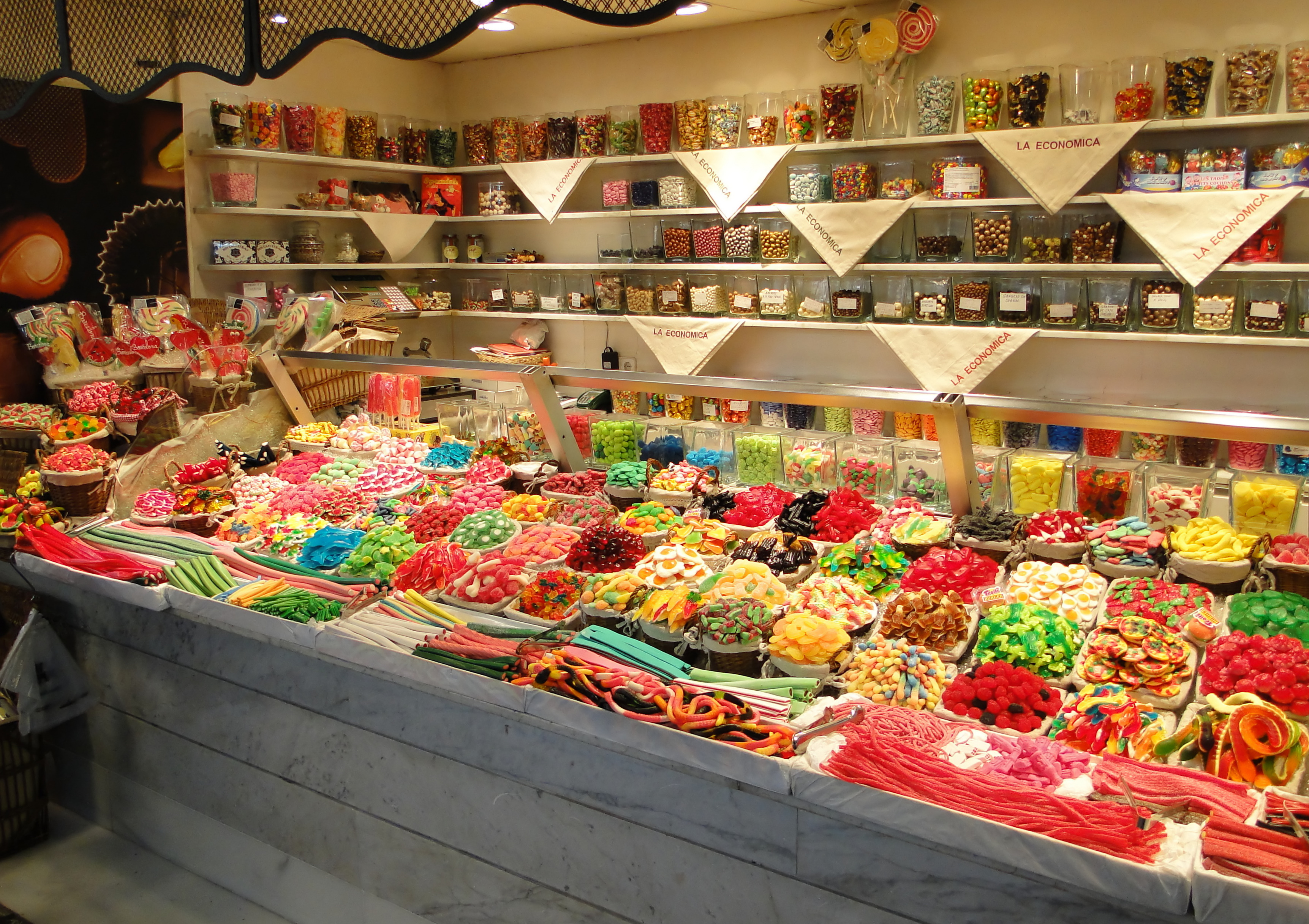 Sweets in La Boqueria market, Barcelona, Spain